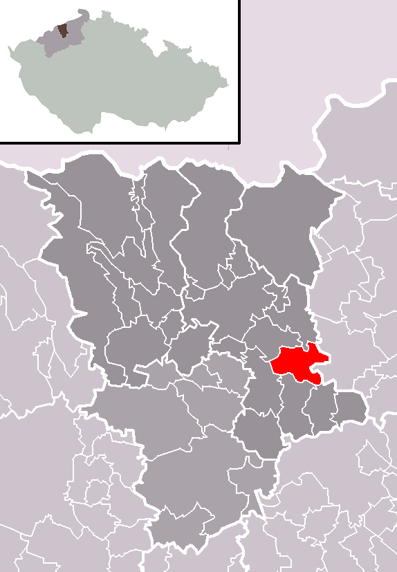 Location of Rtyně nad Bílinou municipality within Teplice District and administrative area of Teplice as a Municipality with Extended Competence.